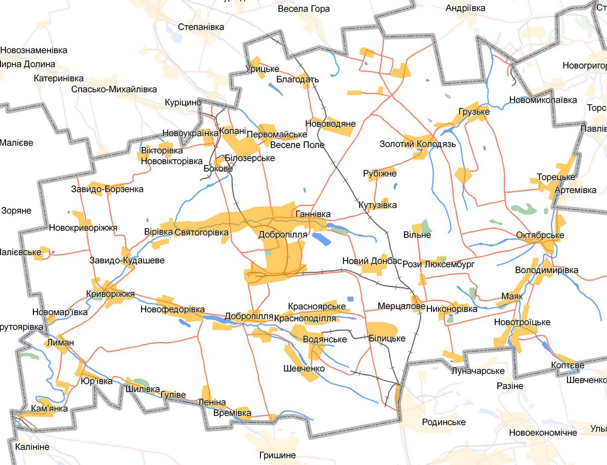 Map of Dobropillia Raion, Donetsk Oblast, Ukraine